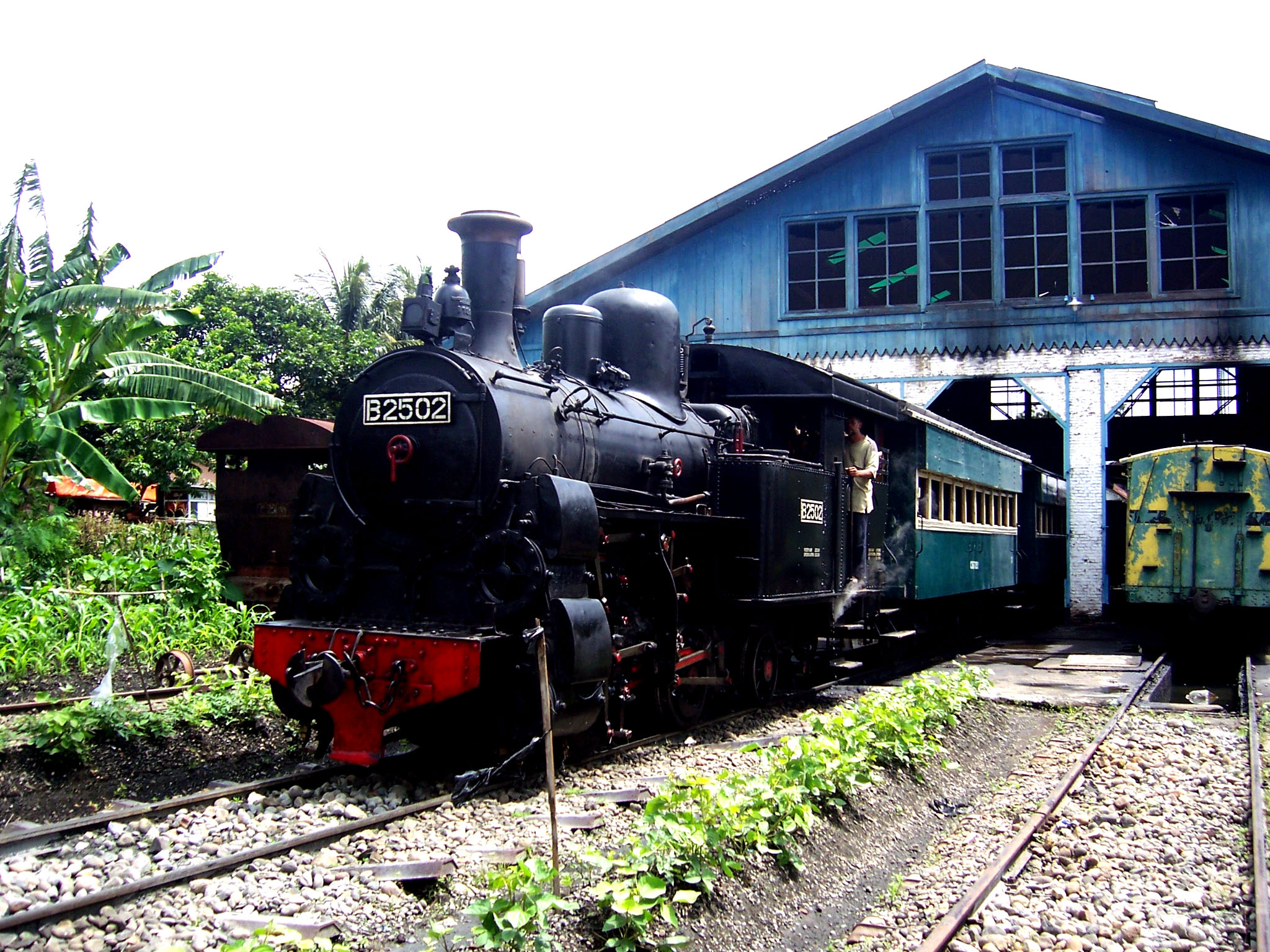 Ambarawa Steam Train If you wonder how it looks when running, I have put the video here